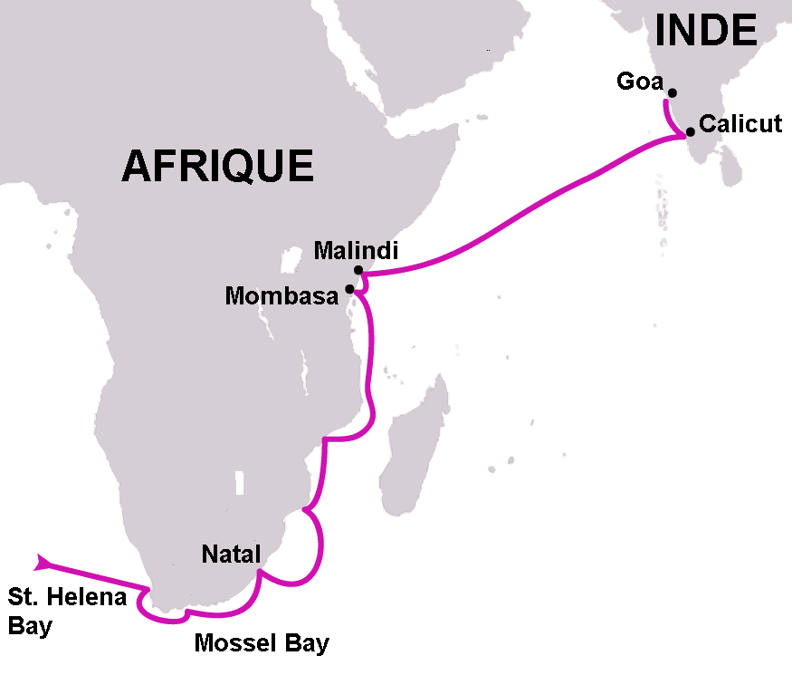 First voyage of Vasco da Gama (wp-EN). Map first created by Feydey, based on info from several maps and Wikipedia, with some little changes and French names for Africa and India.